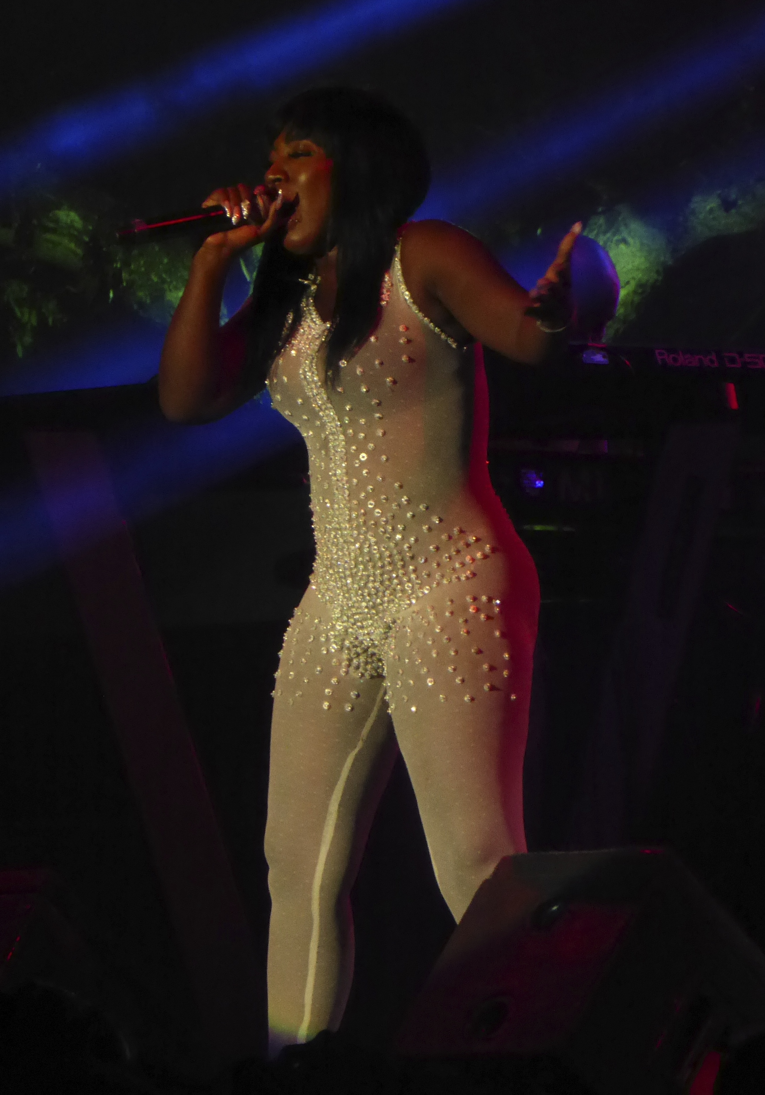 Spice performs on stage for Dancehall Night at Reggae Sumfest 2013.